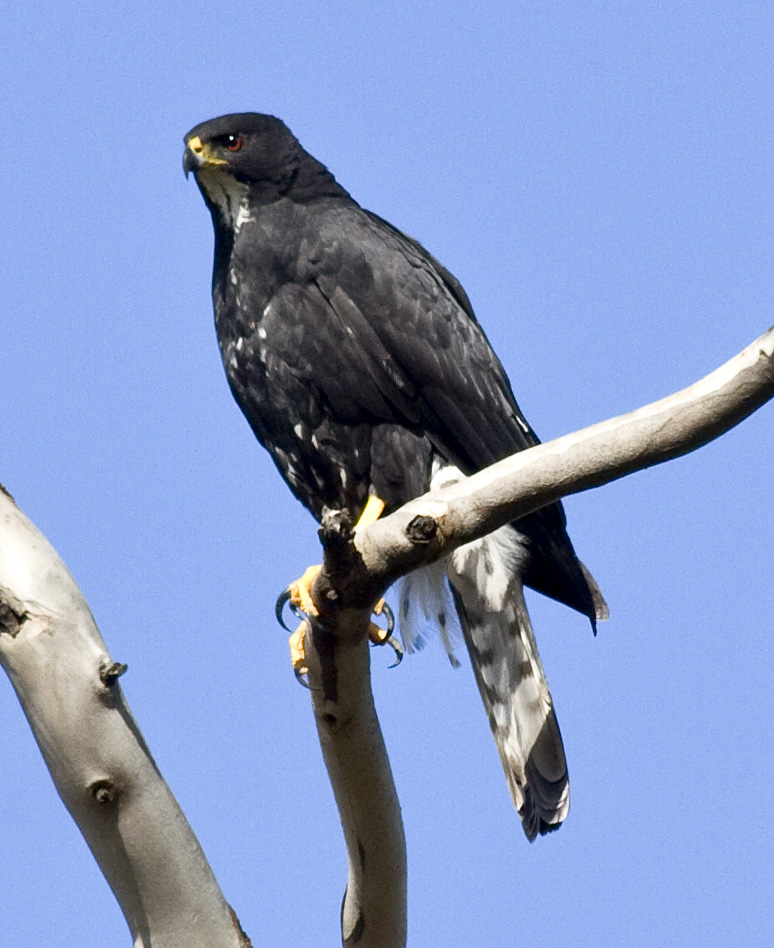 Black Sparrowhawk adult, black morph, Cape Peninsula, South Africa